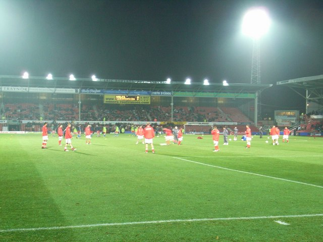 Pre-match warm-up The Welsh soccer team conduct their pre-match warm-up at The Racecourse.